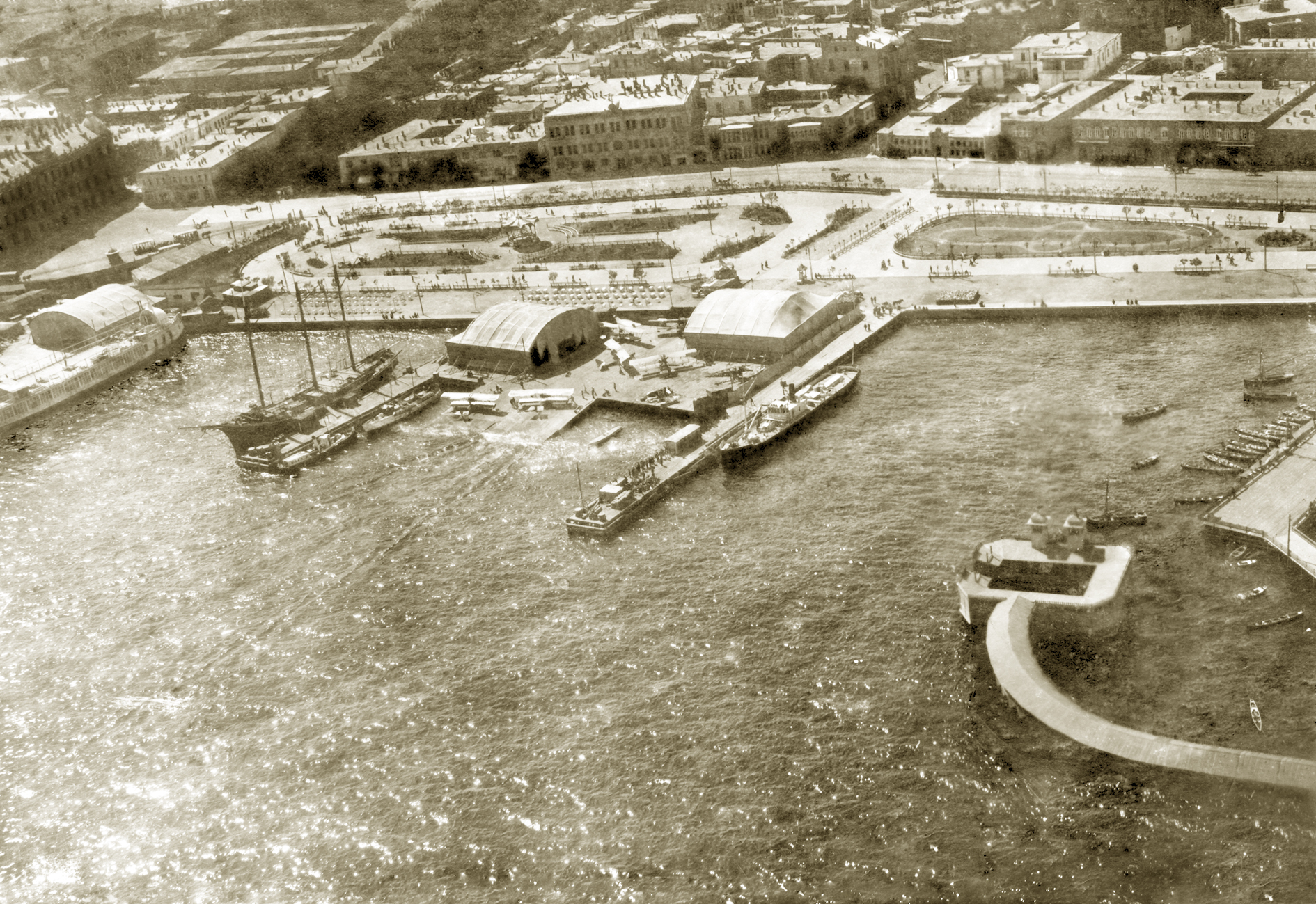 Naval Aviation Officer's School in Baku.